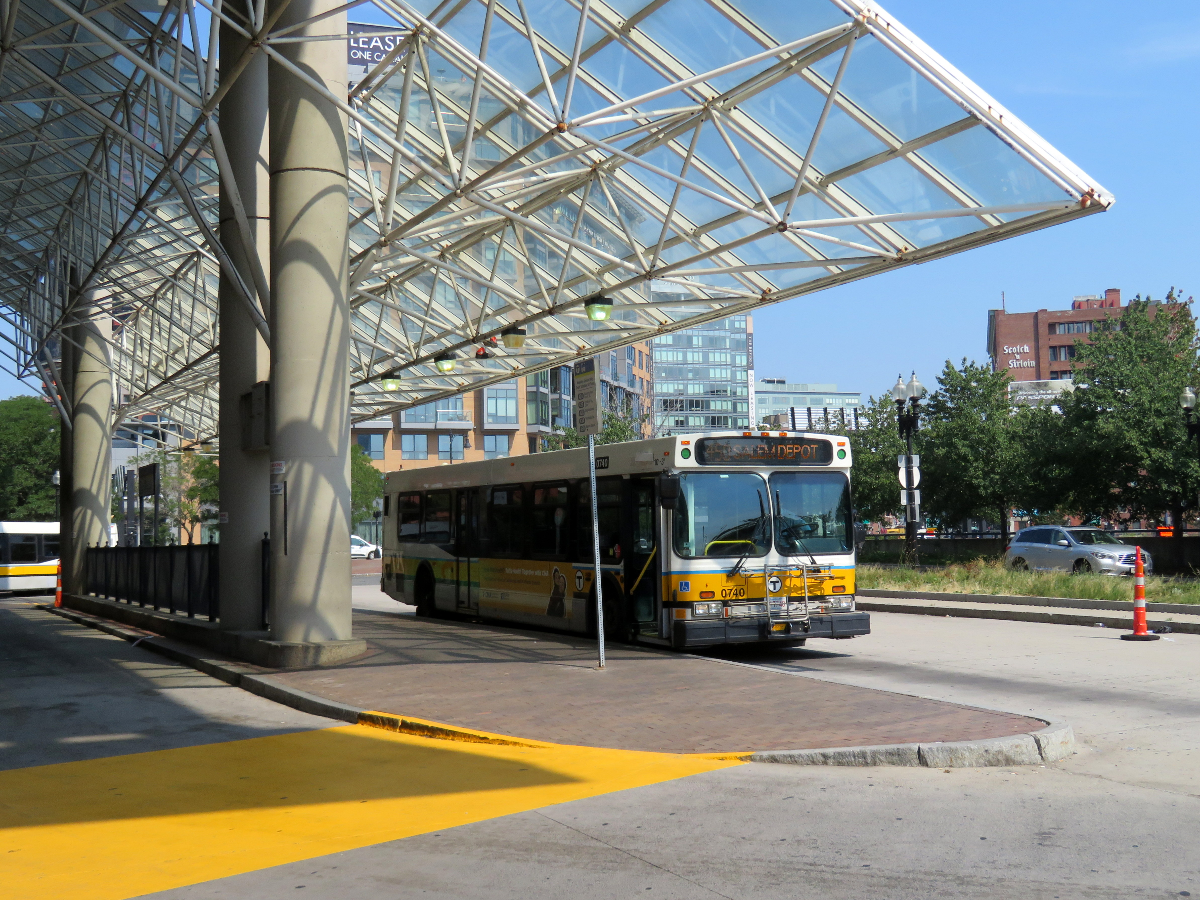 An MBTA route 450 bus in the busway at Haymarket station in July 2019